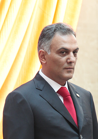 Gagik Beglaryan. From PAN Photo archive